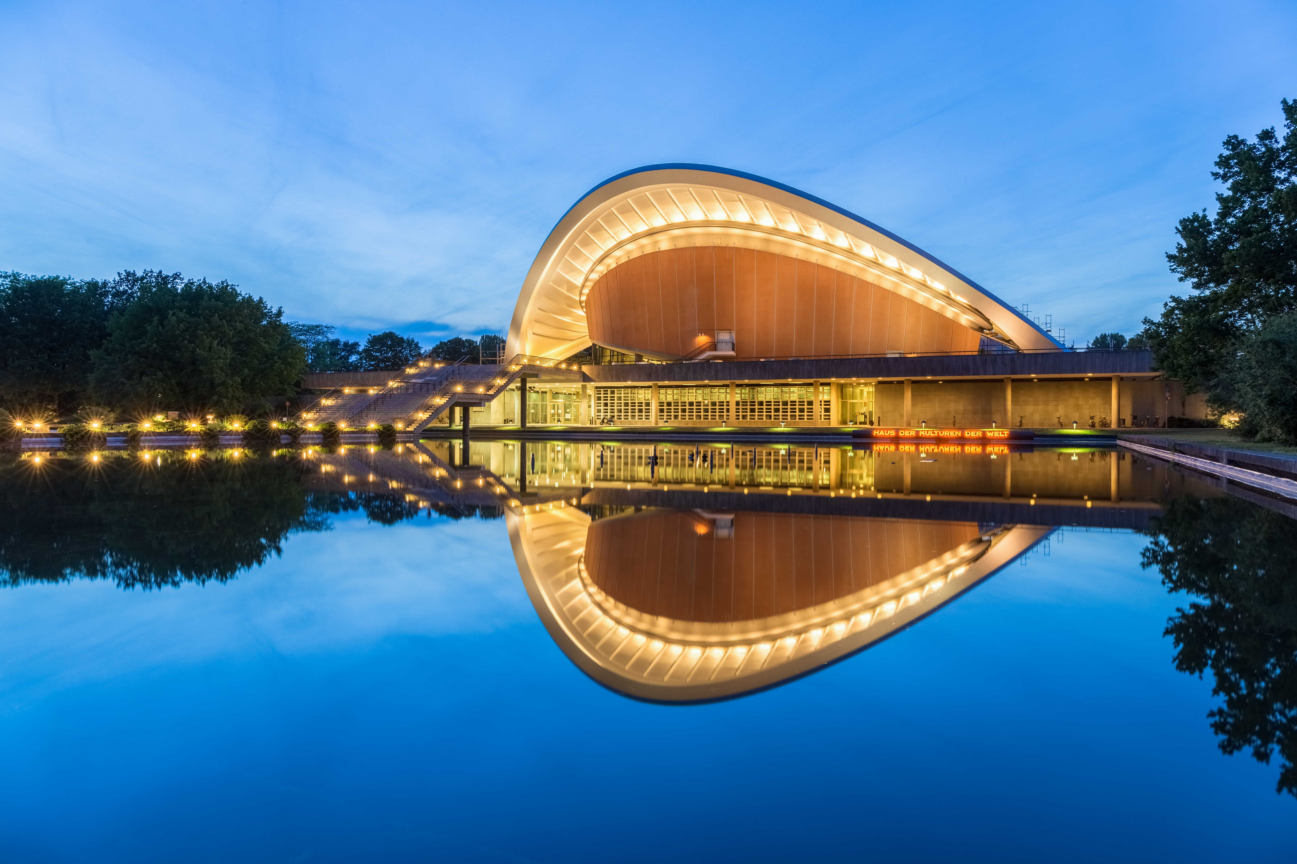 Haus der Kulturen der Welt, Berlin. The building is located in the Tiergarten park. It was formerly known as the Kongresshalle conference hall. It was designed in 1957 by the American architect Hugh Stubbins. The building is reflecting in the water basin in front of it.